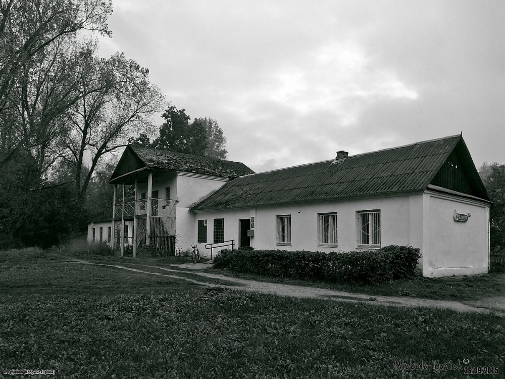 Fligel of the former manor in Hrušava, Brest Region, Belarus)